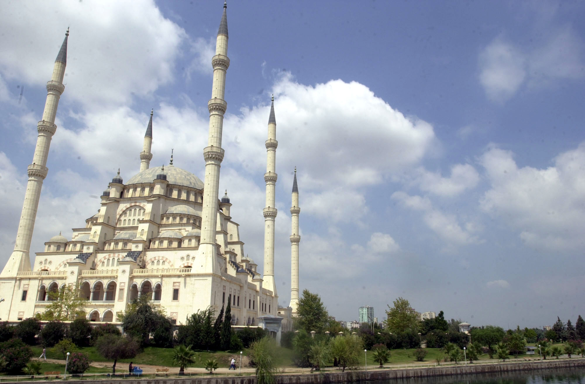 The Sabancı Mosque in Adana, Turkey